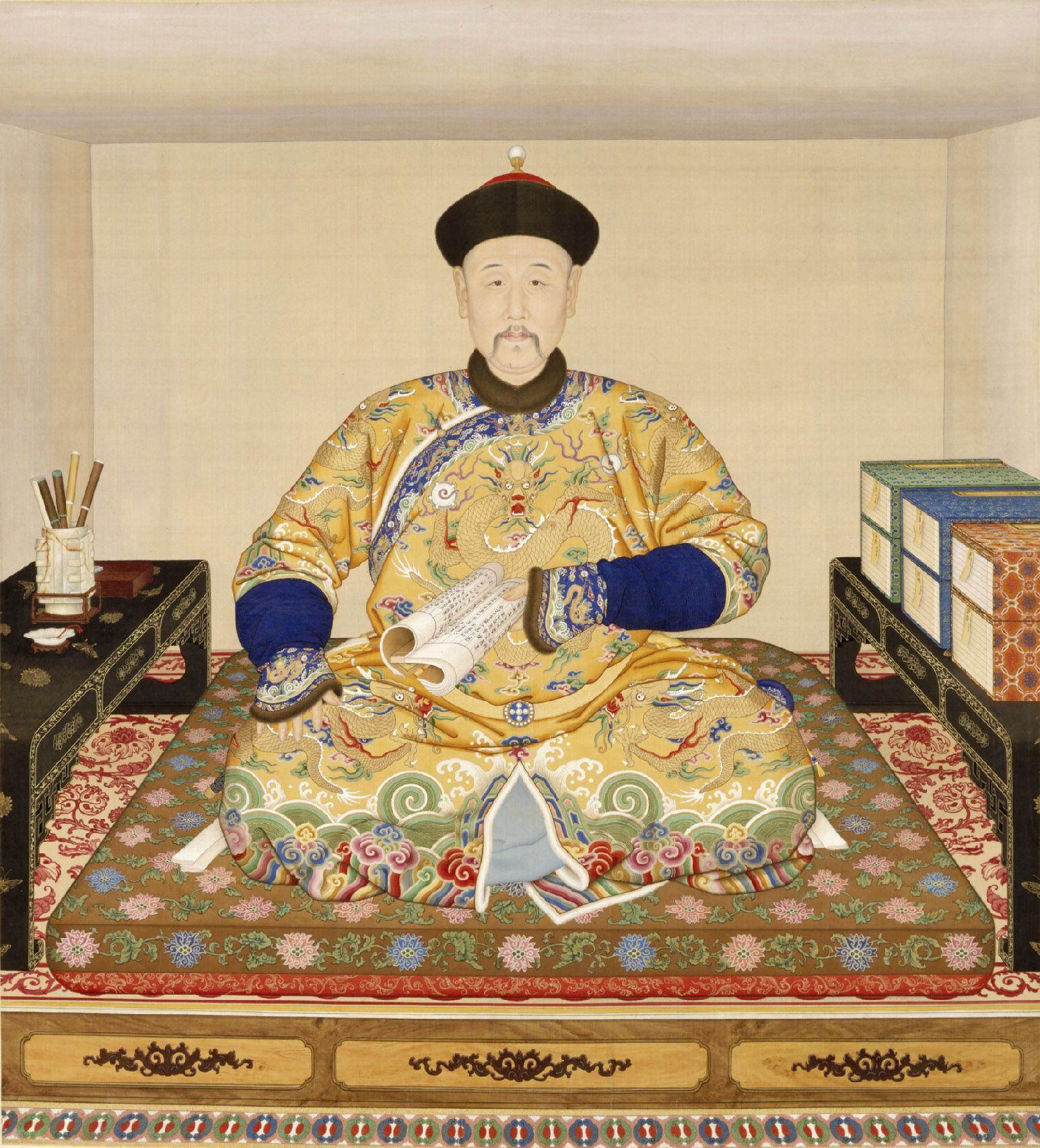 Portrait of the Yongzheng Emperor (r. 1722–1735) of the Qing Dynasty, reading a stitched-bound book. Painted with ink and color on a silk scroll 171.3 centimetres (67.4 in) high by 156.5 centimetres (61.6 in) wide. Kept at the Palace Museum in Beijing, China.